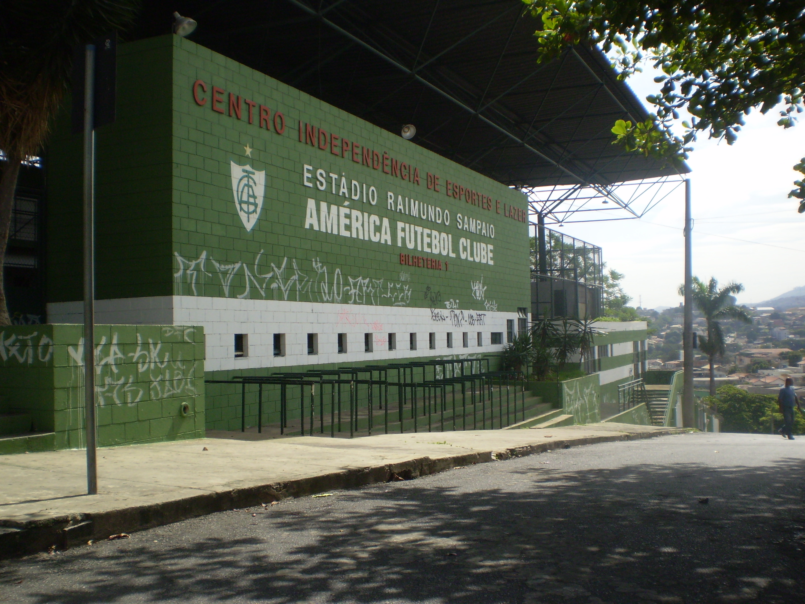 The entrance of Independência Stadium.